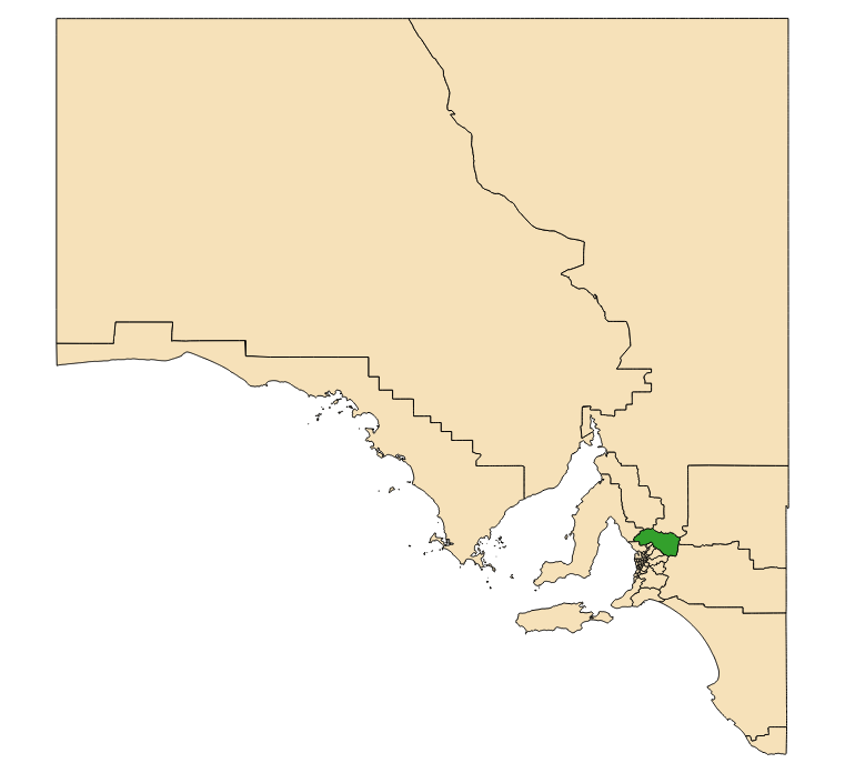 Electoral district 2018 boundaries shown in green